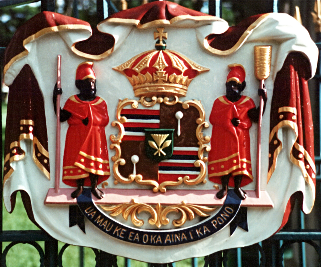 Coat of Arms of the Hawaiian kingdom, ʻIolani palace, Honolulu, Hawaiʻi